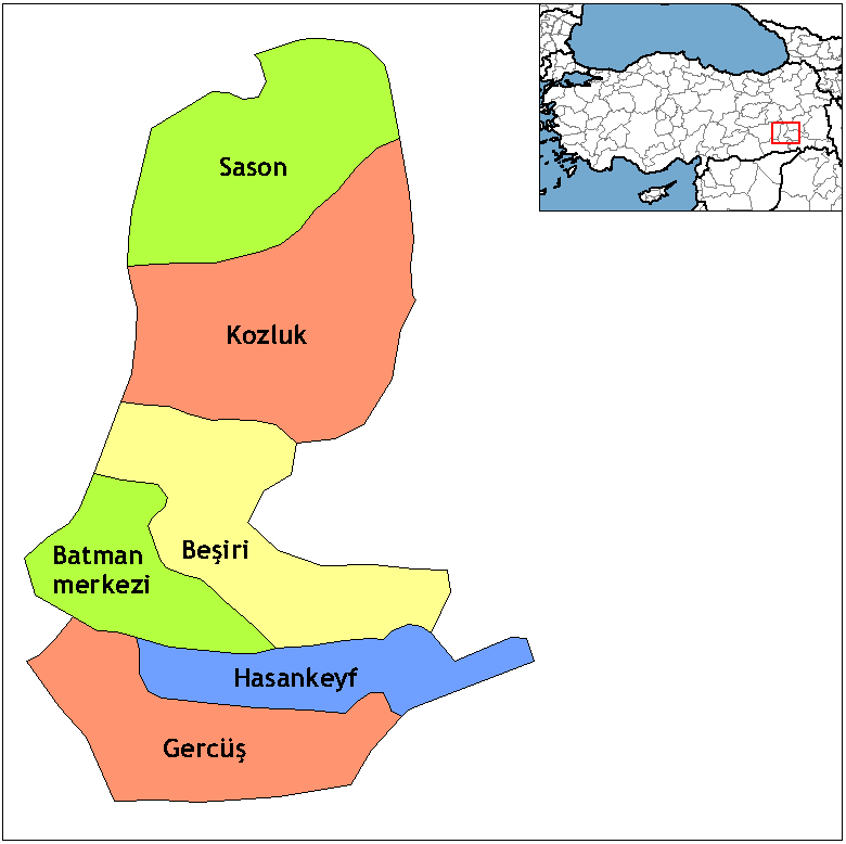 Map of the districts of Batman province in Turkey. Created by Rarelibra 18:55, 1 December 2006 (UTC) for public domain use, using MapInfo Professional v8.5 and various mapping resources. Edited by One Homo Sapiens Corrected text where İ,Ş,ı,ğ,or ş occurs in name. Source: [statoids-com]. Increased font size and enhanced color differences among adjacent districts.